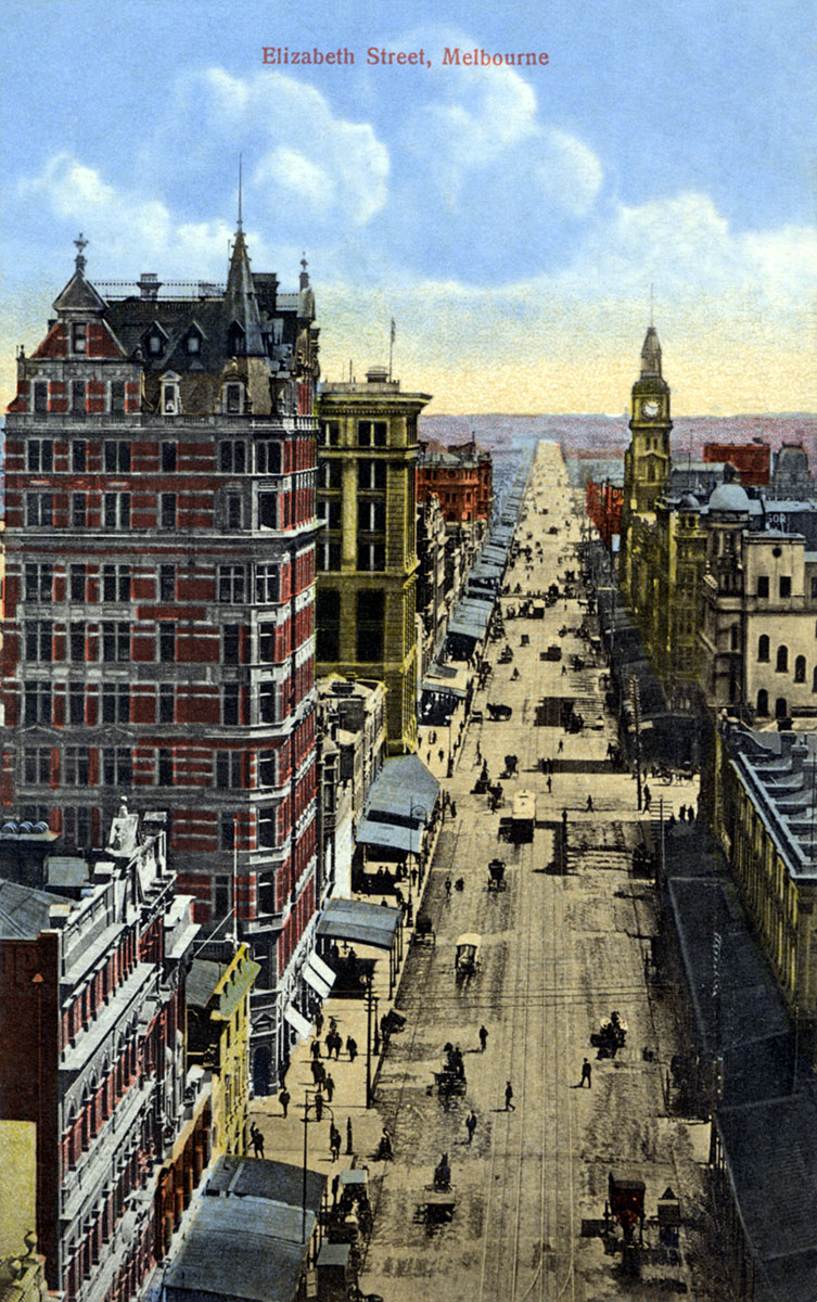 The Australian Building on the left, 49 Elizabeth St., Melbourne built 1889.:Postcard